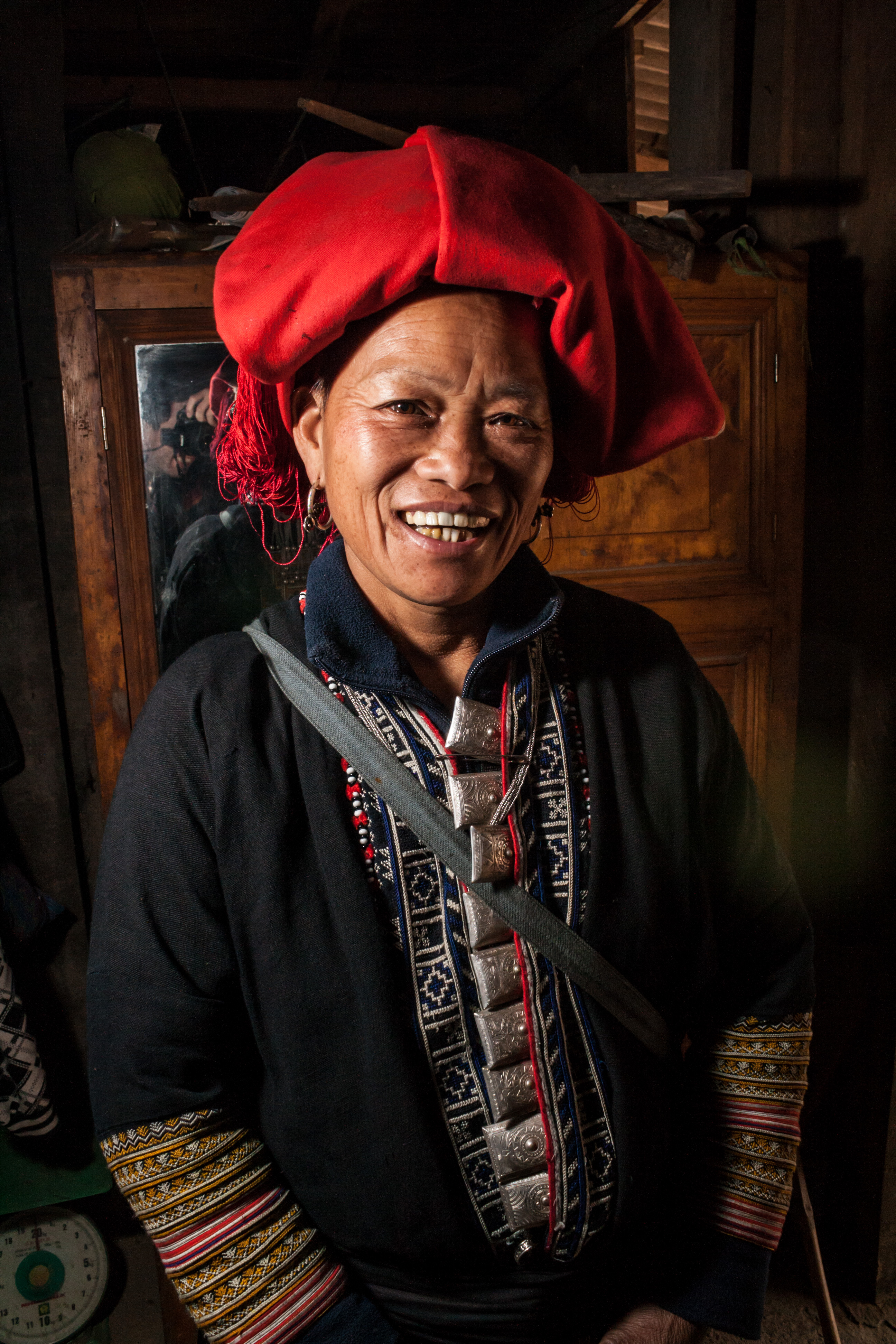 Red Yao Chief - Ta Phin Village